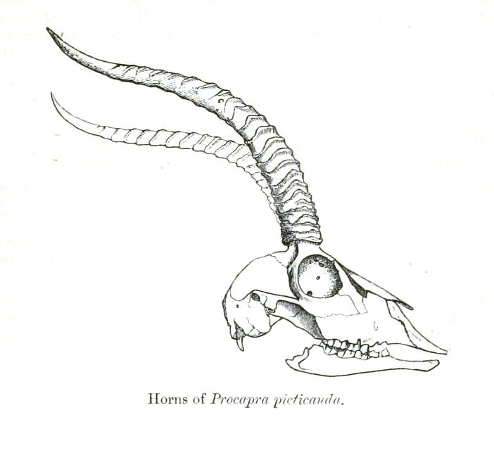 Goa (Tibetan Gazelle), skull from lateral